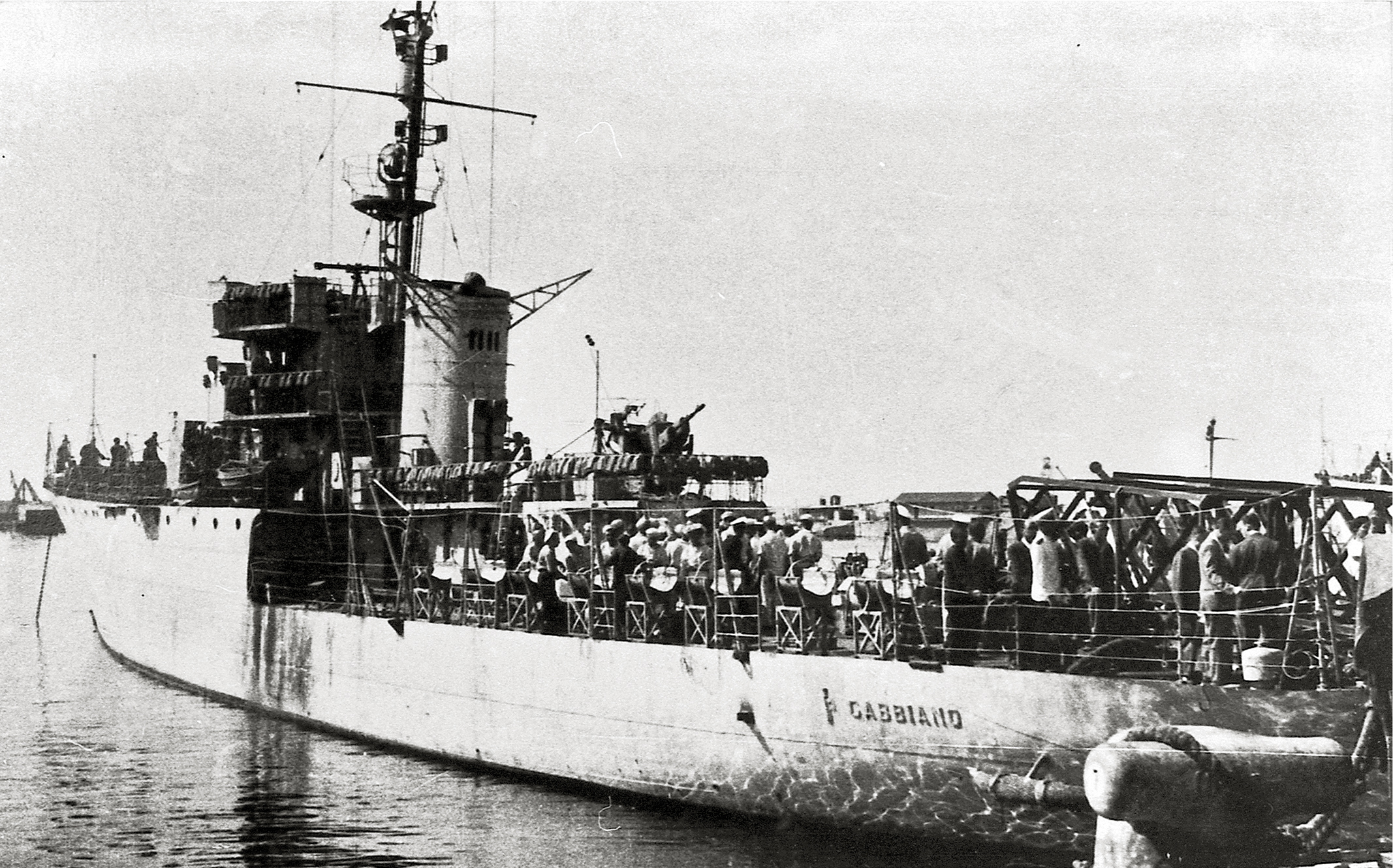 C 11 Gabbiano (Giorgio Parodi)